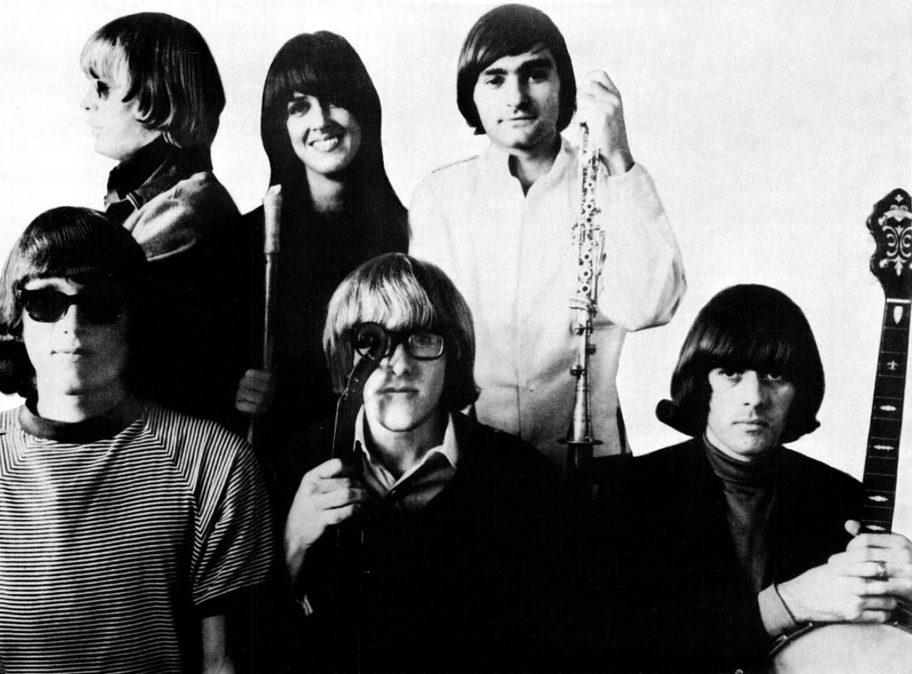 Trade ad for Jefferson Airplane's single "My Best Friend". Top row from left: Jack Casady, Grace Slick, Marty Balin; bottom row from left: Jorma Kaukonen, Paul Kantner, Spencer Dryden.To better adapt it to his respective Wikipedia article, the ad was cropped and cleaned in a graphics editing program. The original can be viewed at the source below.